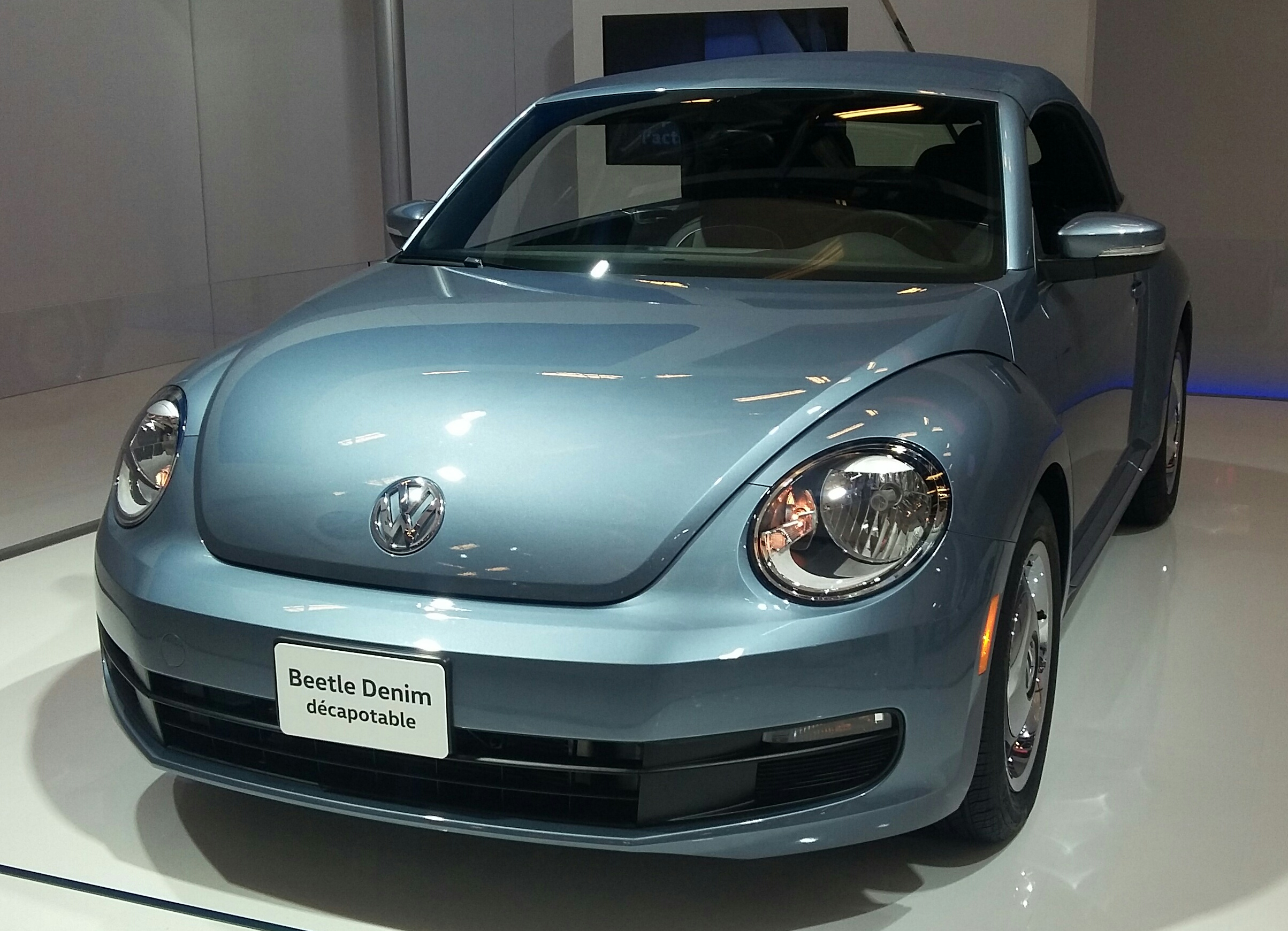 2016 Volkswagen Beetle photographed in Montreal, Quebec, Canada at the Salon International de l’auto de Montréal 2016.